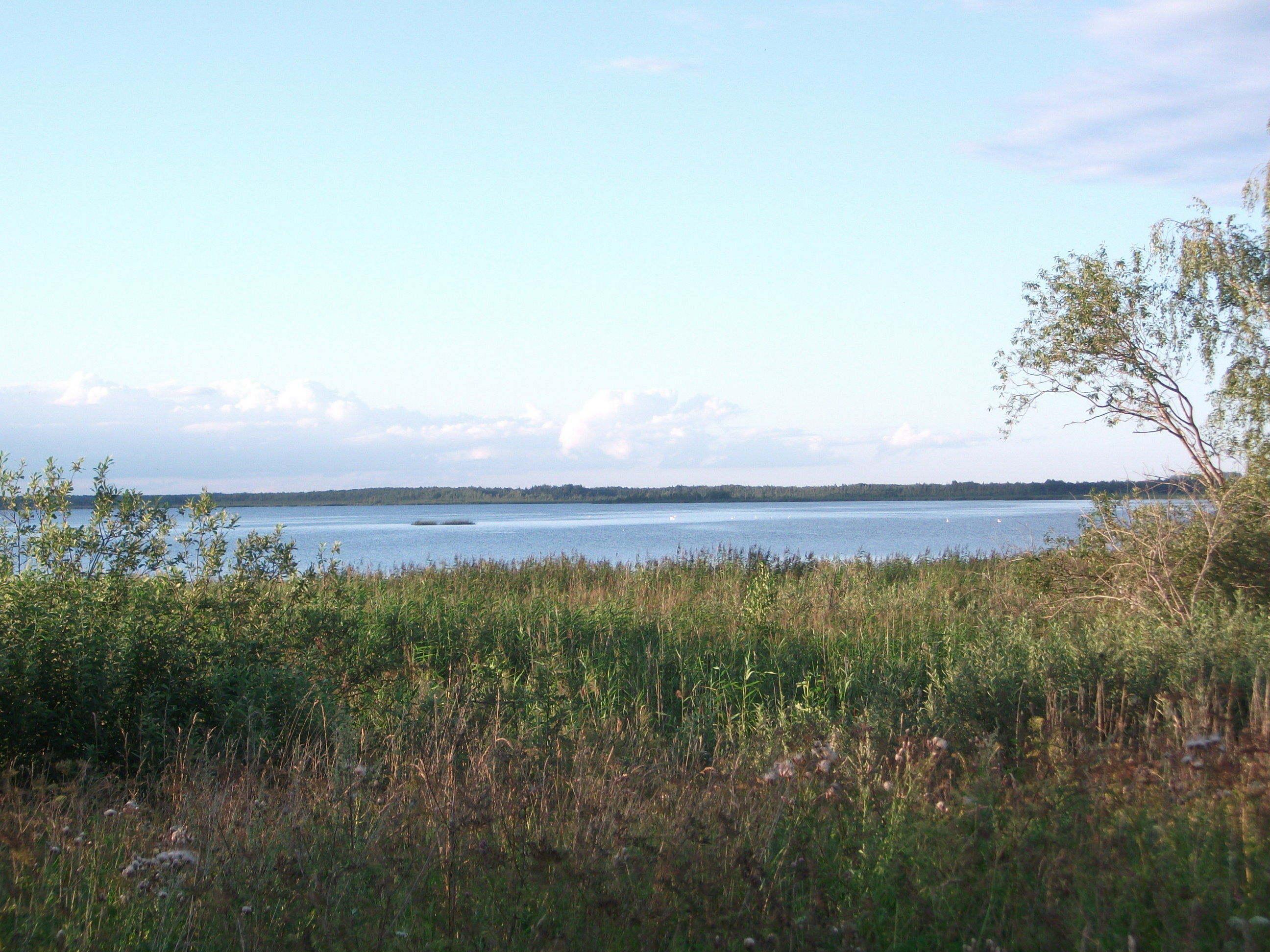 Asveya Lake from the direction of Chapayeusky village